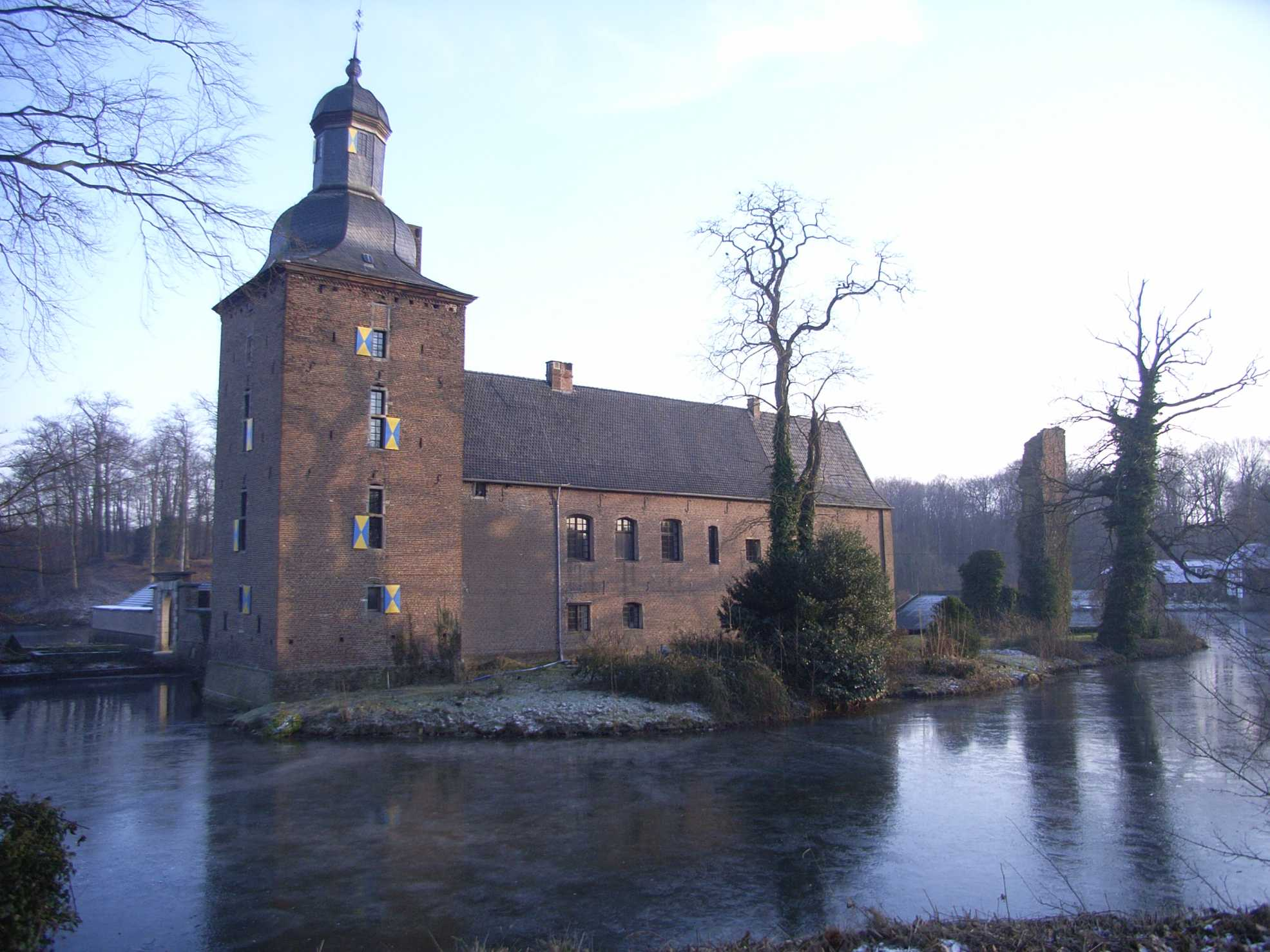 Schloss Tüschenbroich, Wegberg, NRW